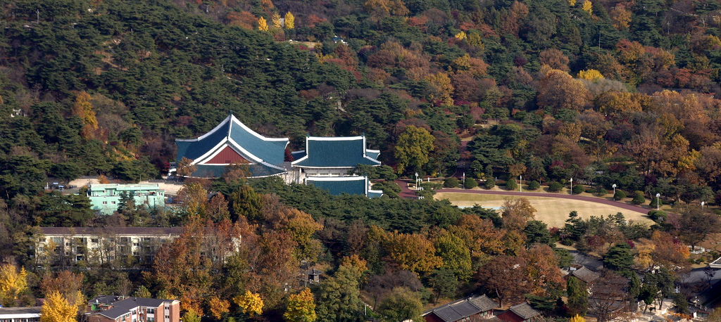 “Cheongwadae” or Blue House in Seoul. Home of the Korean President